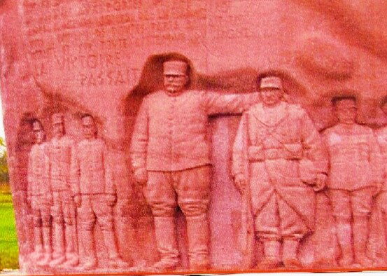 Part of Mondemont War Memorial